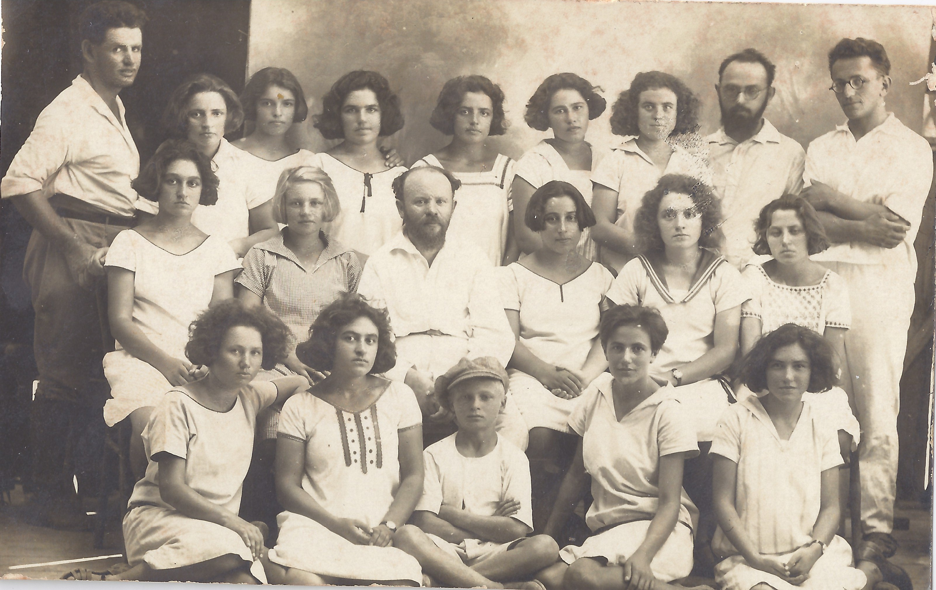 Kfar Yeladim Principal Shneur Zalman Pugachov sitting among a group of girl students (probably graduates; one of them, standing 3rd to the right, is Bilha Brenner) and teachers Arieh Allweil (to the right), Zvi Zohar (next to him) and Dov Yoffe (to the left).